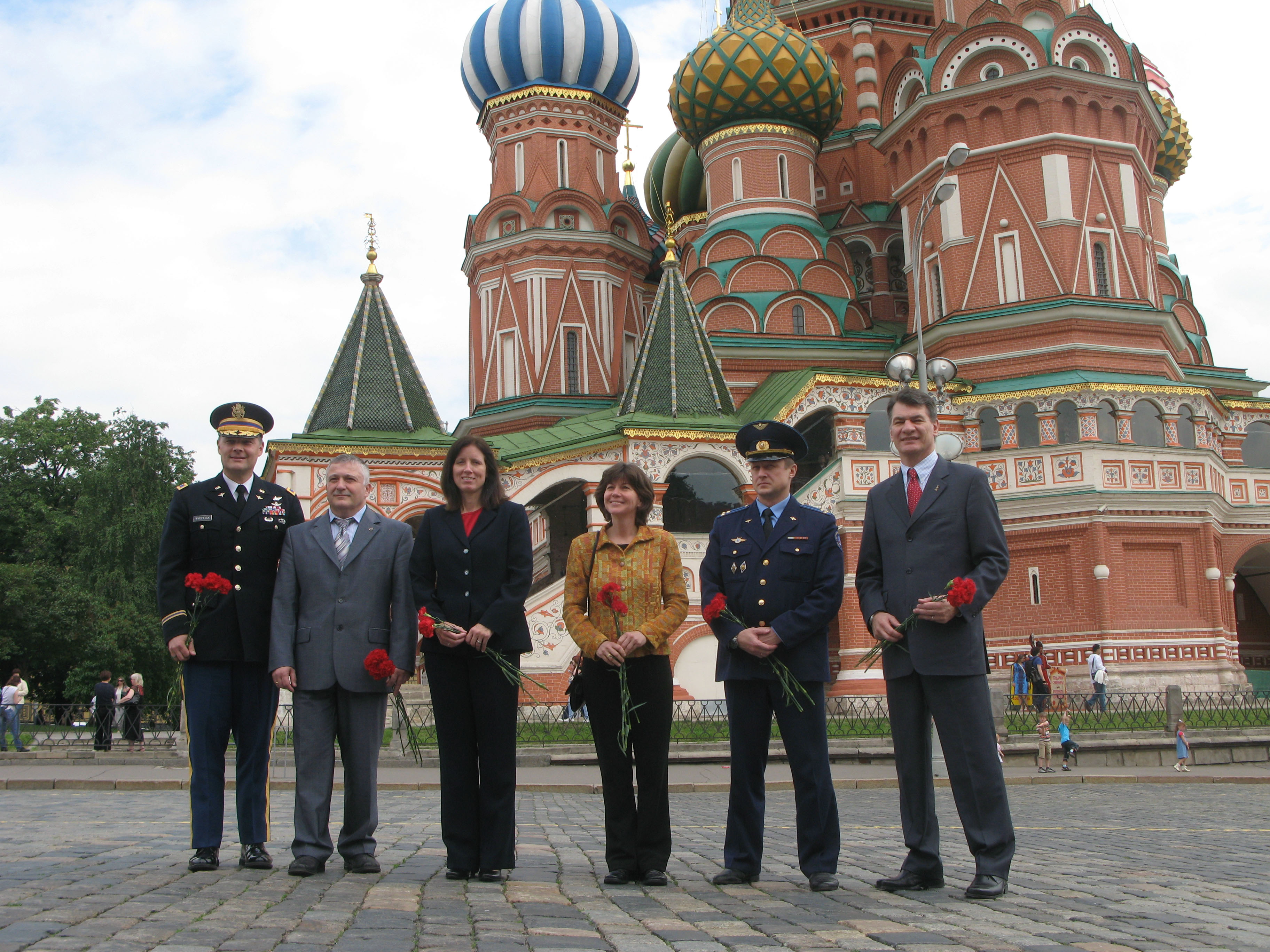 The prime and backup crews for the launch of the Soyuz TMA-19 spacecraft to the International Space Station conduct their ceremonial tour of Red Square May 31, 2010 prior to flying to the Baikonur Cosmodrome in Kazakhstan for final prelaunch preparations. From left to right are prime crew members -- NASA astronaut Doug Wheelock, flight engineer; Russian cosmonaut Fyodor Yurchikhin, Soyuz commander; and NASA astronaut Shannon Walker, flight engineer -- along with backup crew members -- NASA astronaut Cady Coleman, Russian cosmonaut Dmitri Kondratiev and European Space Agency astronaut Paolo Nespoli. Wheelock, Walker and Yurchikhin are scheduled to liftoff June 15 to the International Space Station.